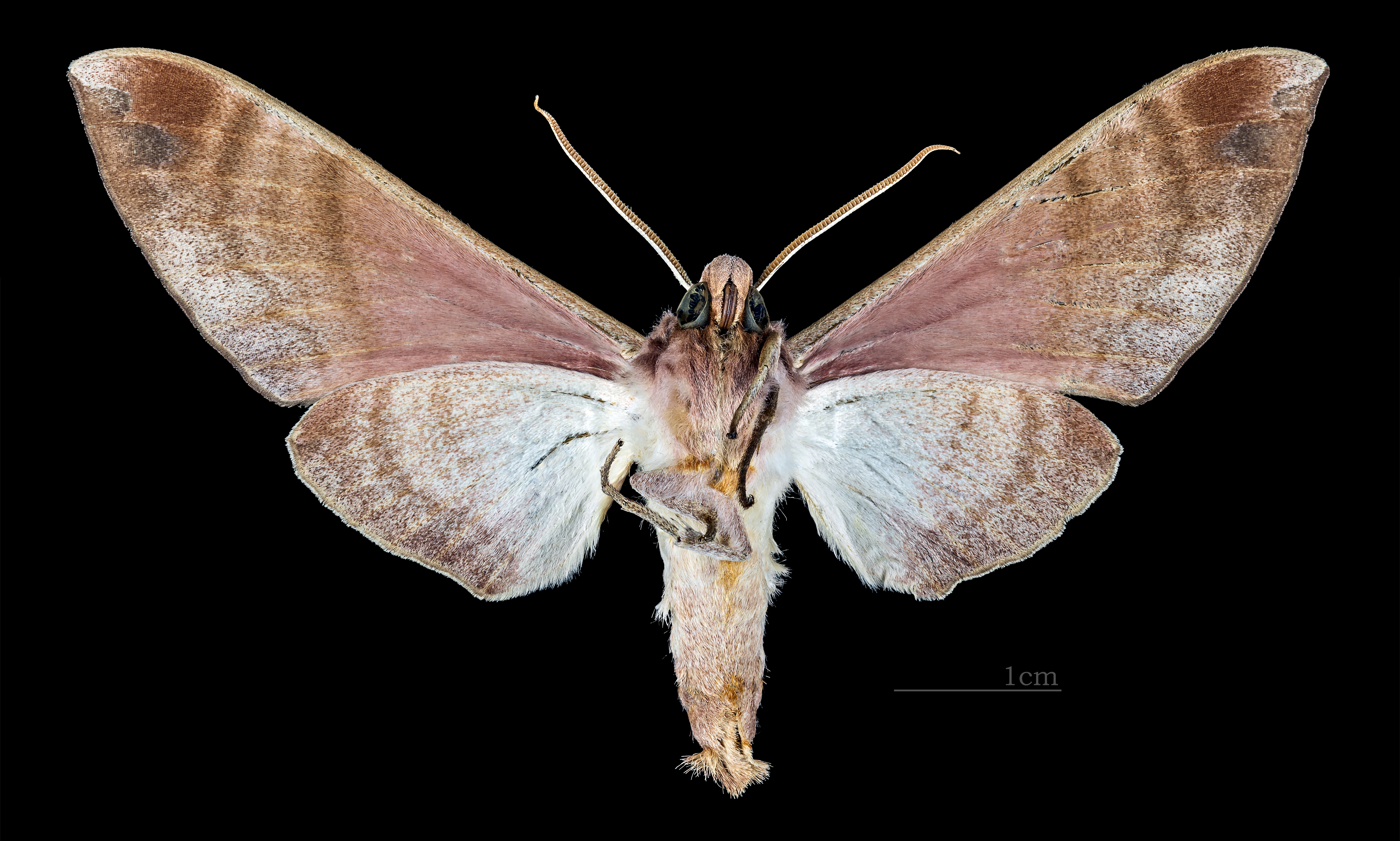 Opistoclanis hawkeri - △ Ventral side Collection of the Mathematician Laurent Schwartz